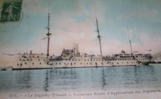 Postcard of France - French Marine - Cruiser "Duguay-Trouin", Cruiser-school for application (1900-1914) it was then transformed into a hospital ship (1914-1920) - unknown Year, approximately 1905.